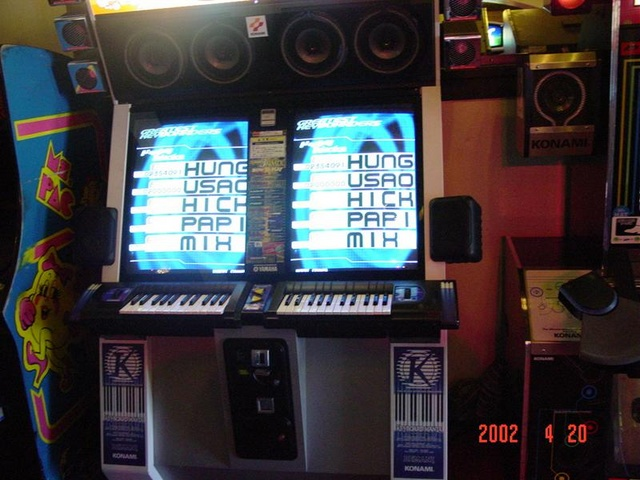 Cabinet of Keyboardmania. Taken at Sunnyvale Golfland in Sunnyvale, California.